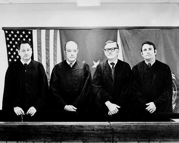 TTPI(Trust Territory of the Pacific Islands) High Court judges